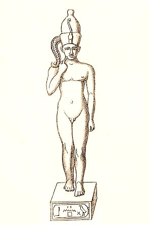 Bronze statuette of Harpocrates. Inscriptions on the four sides of the base: "(Binpu)", visible here, a brother of the 18th Dynasty king Ahmose; "The good god (Sewadjenre), true of voice", generally assumed to be the 16th Dynasty king Sewadjenre Nebiryraw I; "(Ahmose)"; "The good god, (Neferkare), true of voice" (sometimes referred as the 16th Dynasty king Nebiryraw II). Provenance unknown. The statuette was most likely made very much later of the time the aforementioned people had lived.